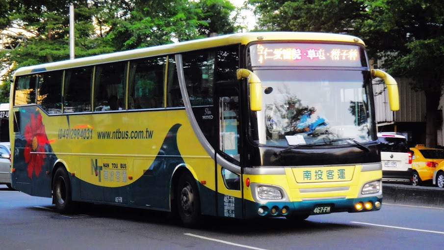 南投客運 467-FM